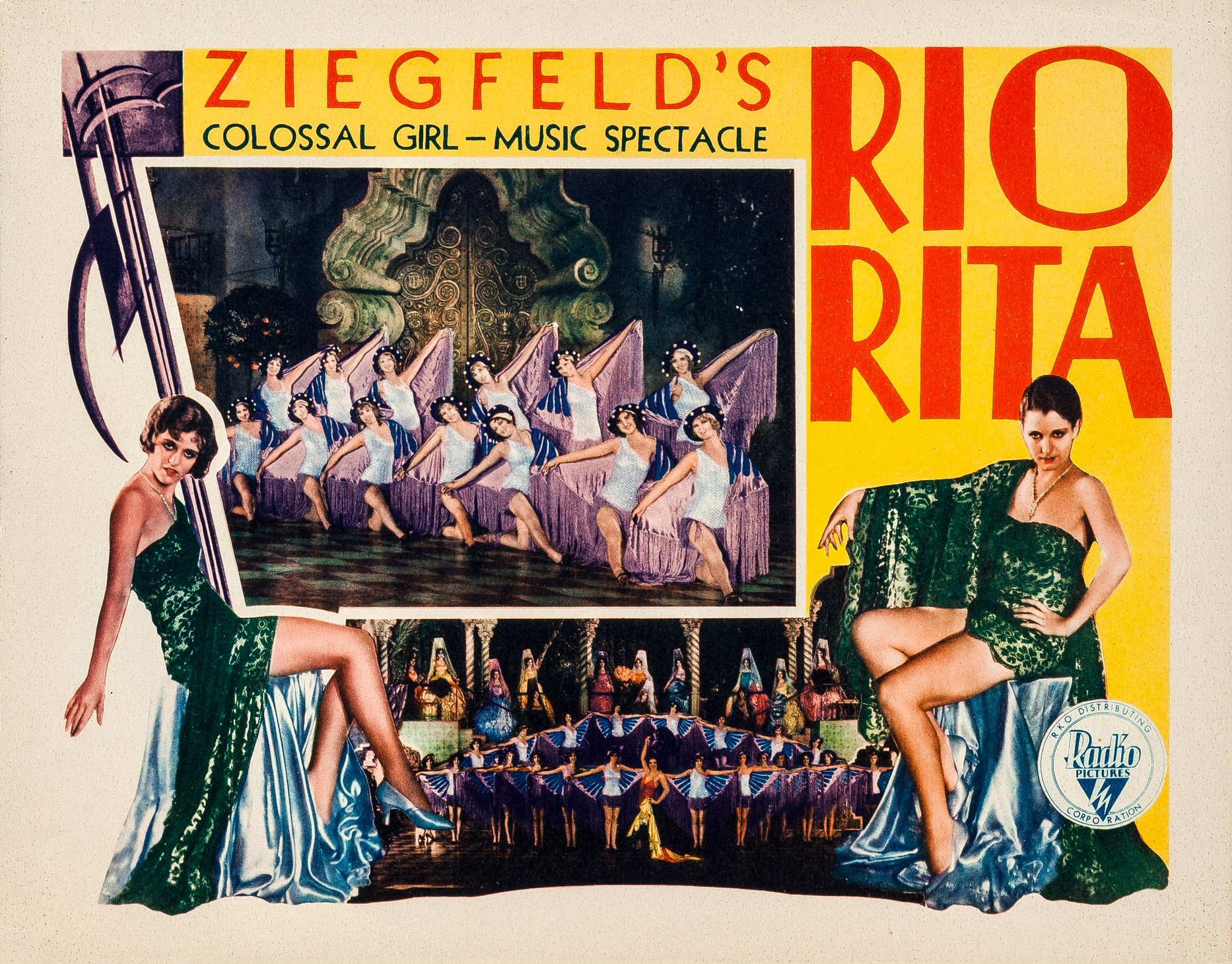 Lobby card for the 1929 film, Rio Rita